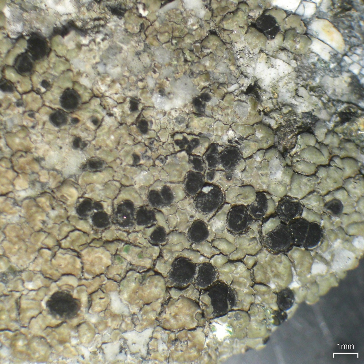 The lichen Lecidea fuscoatra (L.) Ach. Specimen photographed in Mount Wilson, San Gabriel Mountains, Los Angeles Co., California, USA. Notes: "on shaded granitic outcrop in forest near top of ridge around 4500’"